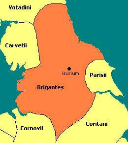 Brigantium map